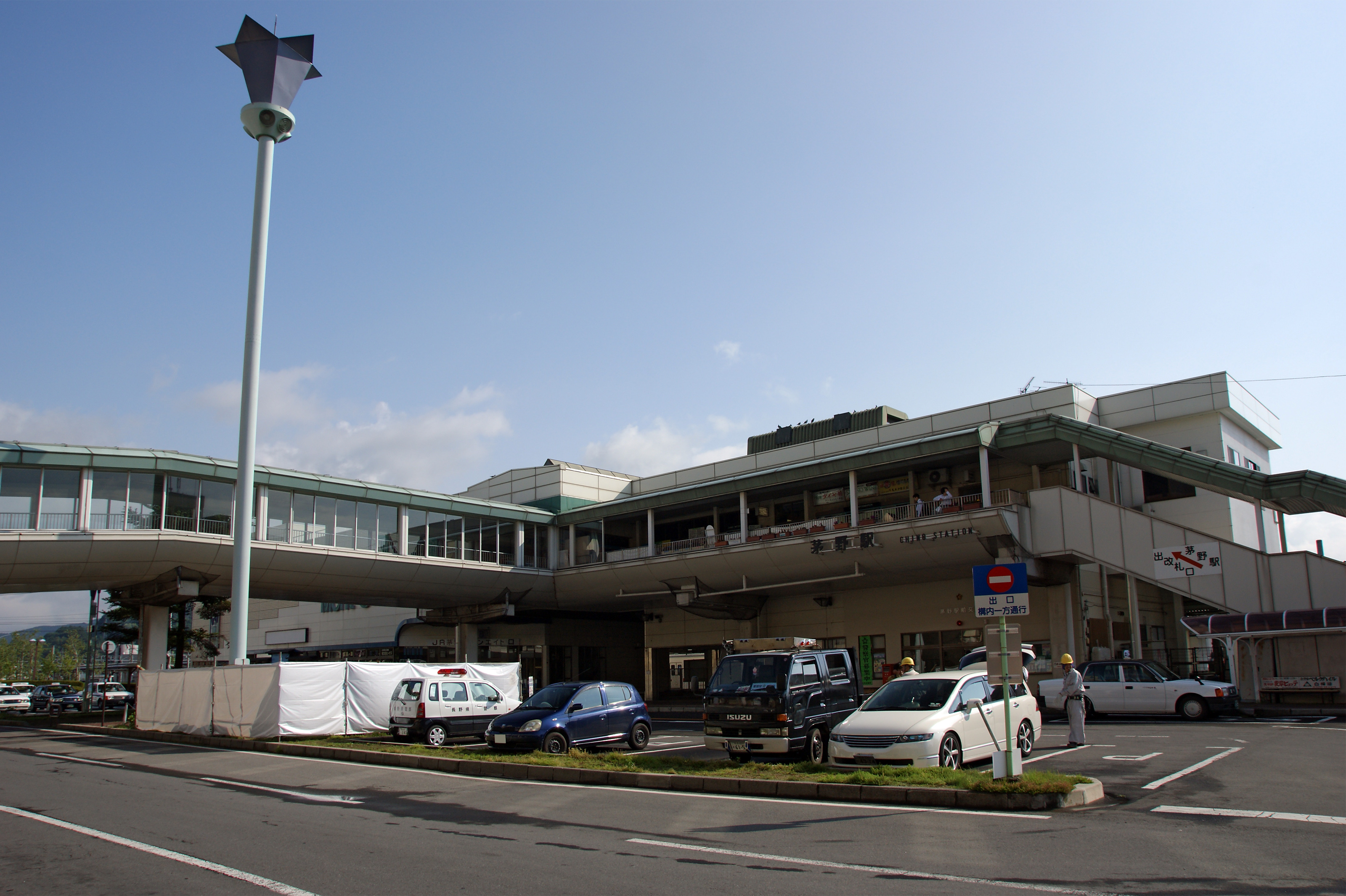 Chino Station, Chino, Nagano prefecture, Japan